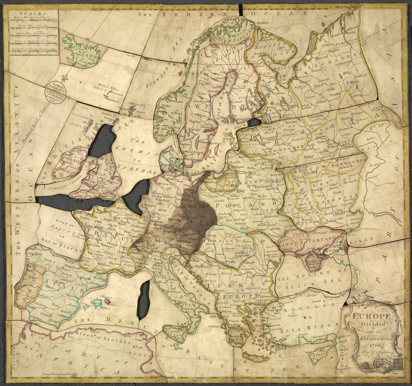 Spilsbury jigsaw "Europe divided into its kingdoms, etc." Believed to be the first purpose made jigsaw puzzle. Map pasted onto board and dissected along country boundaries to make an educational jigsaw puzzle. In 50 pieces, of which 4 (for Scotland, the Channel, the Netherlands, and Corsica & Sardinia) are missing, and that for the Gulf of Finland is damaged. Lid of box contains reduced copy of map and incomplete handwritten label.